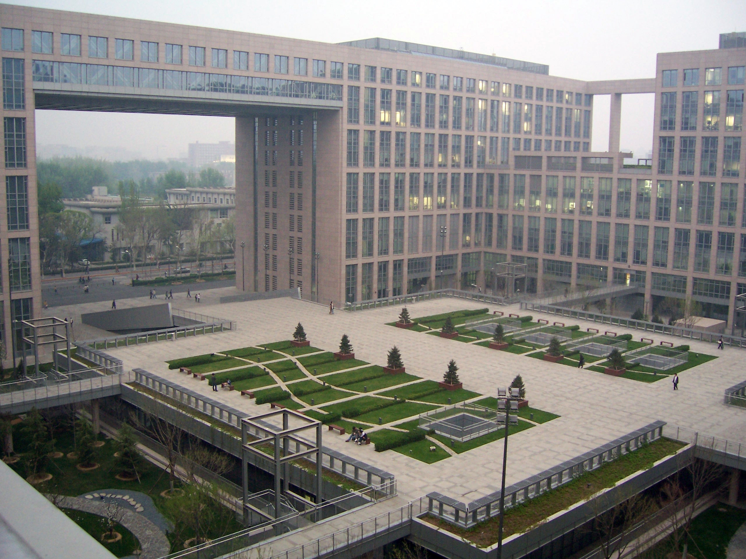 New Main Build